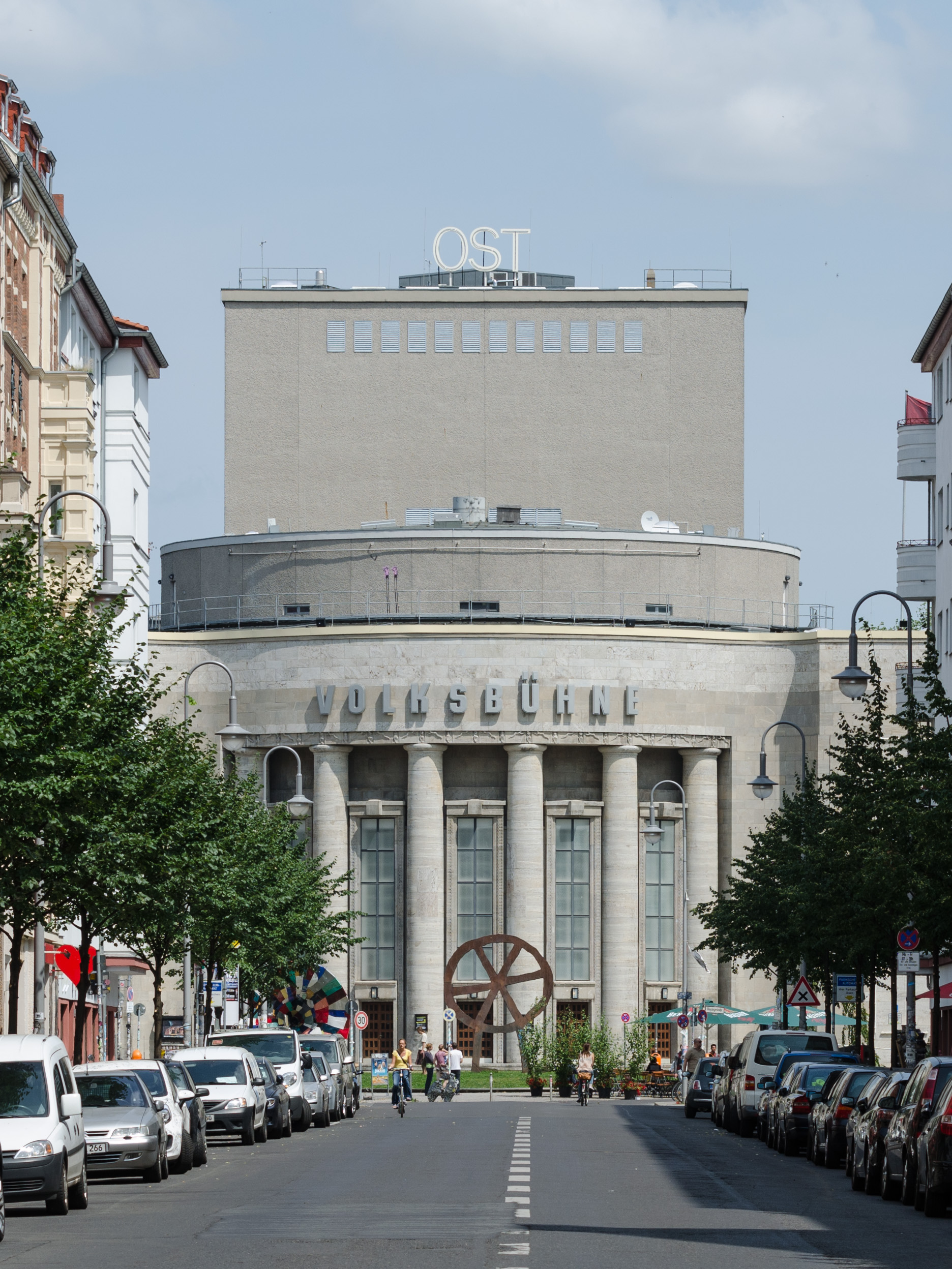 The Volksbühne in Berlin as seen from Rosa-Luxemburg-Straße